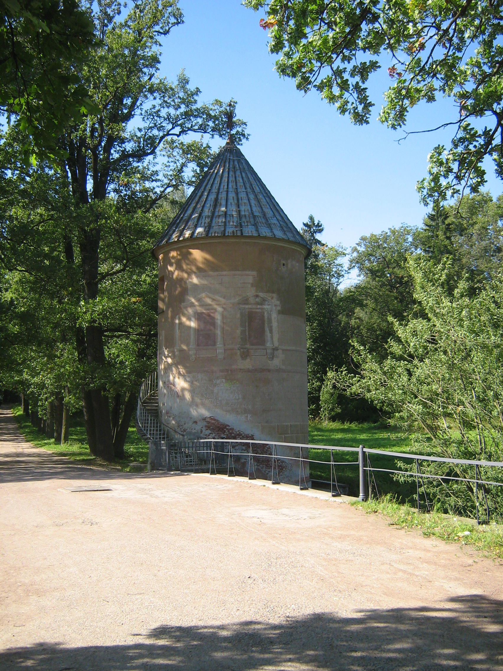 Pavlovsk (Russia)